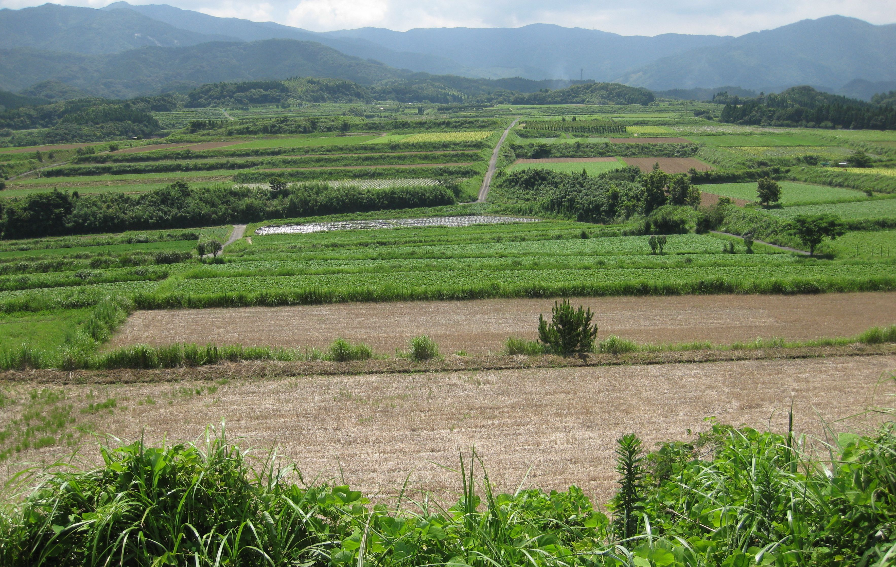 Ōnejime-Daichi Plateau of Kagoshima, Japan